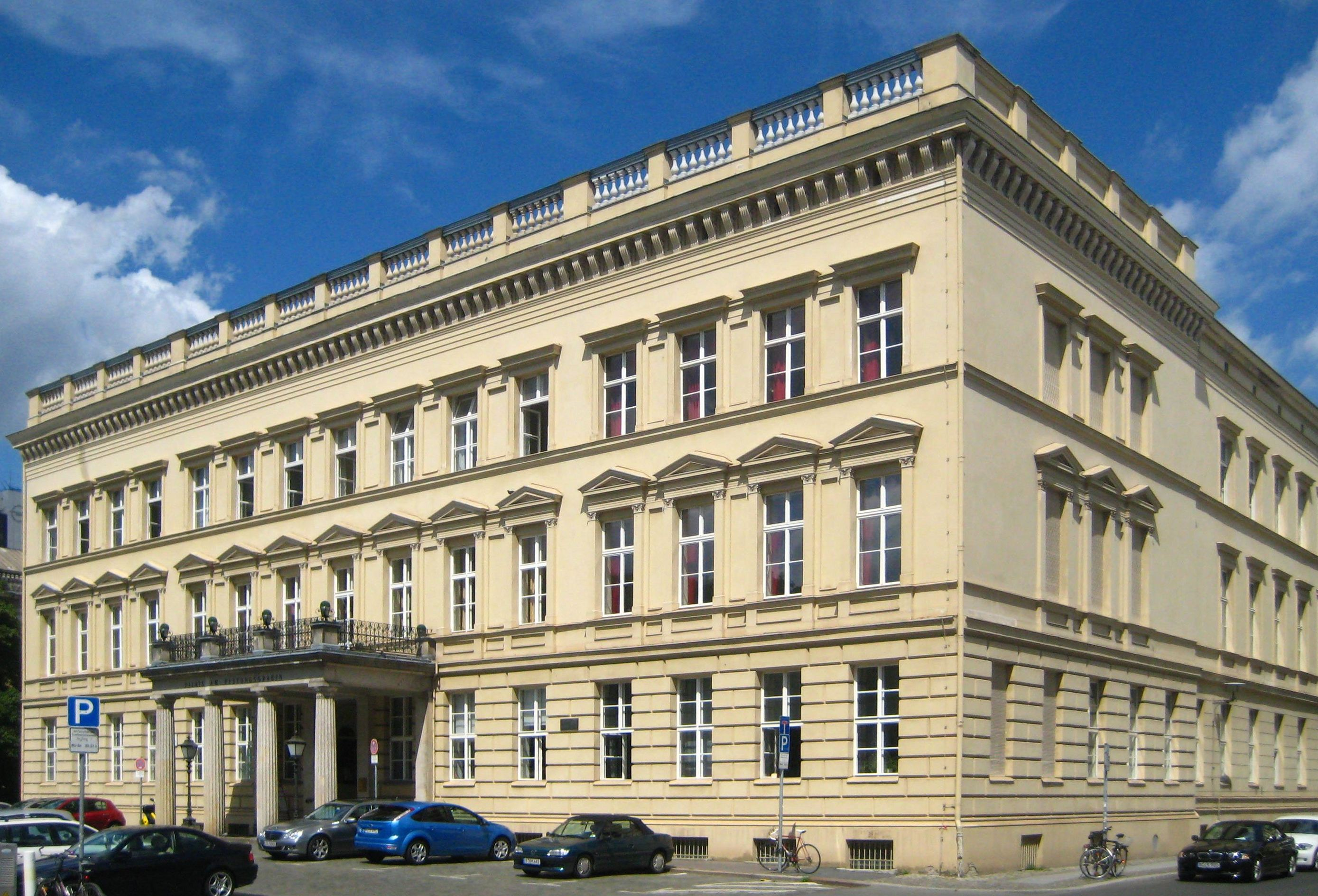 Palais am Festungsgraben in Berlin Mitte, formerly Palais Donner, Prussian Ministry of Finance and House of German-Soviet Friendship resepectively. It was built 1751-1753 by Christian Friedrich Feldmann for the royal valet Johann Gottfried Donner. The building is landmarked.